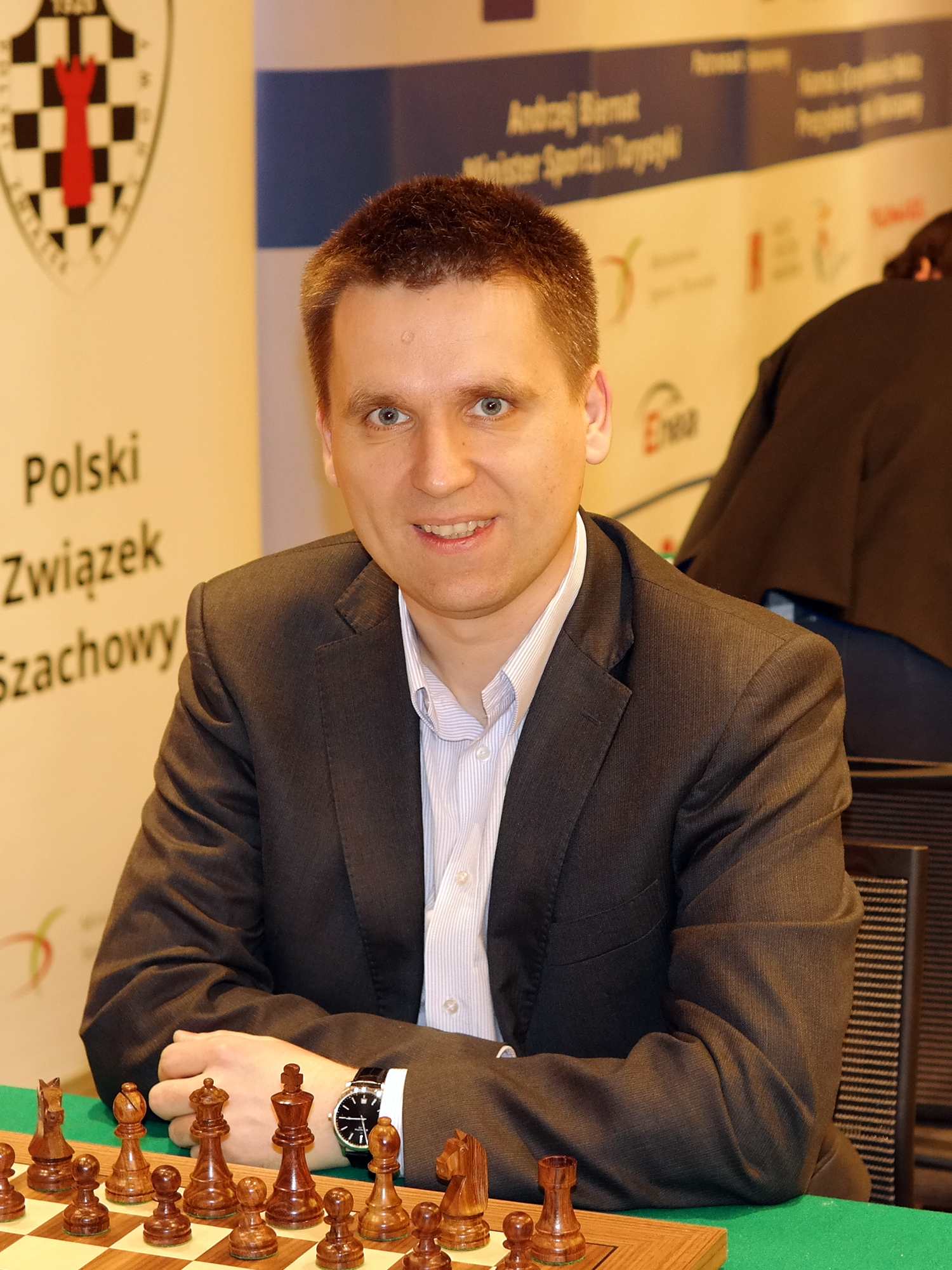 GM Bartosz Soćko, Polish Chess Championship, Warsaw 2014